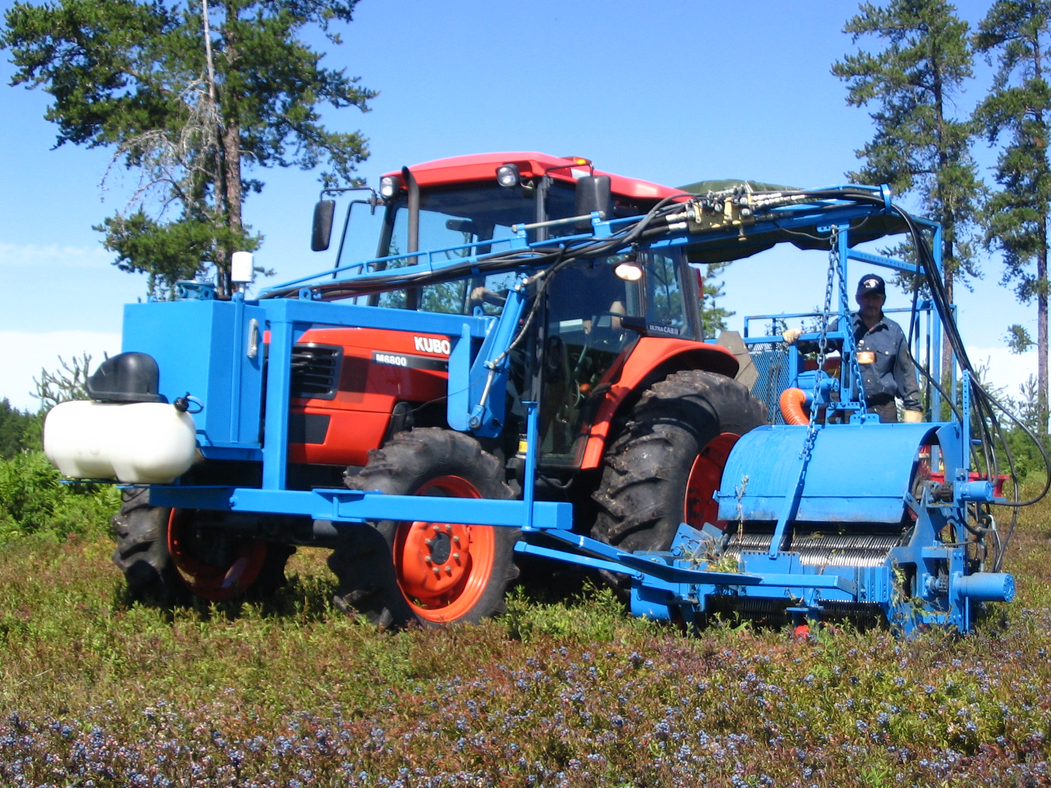 Commercial blueberry field in New-Brunswick, Canada, Kubota M6800 tractor